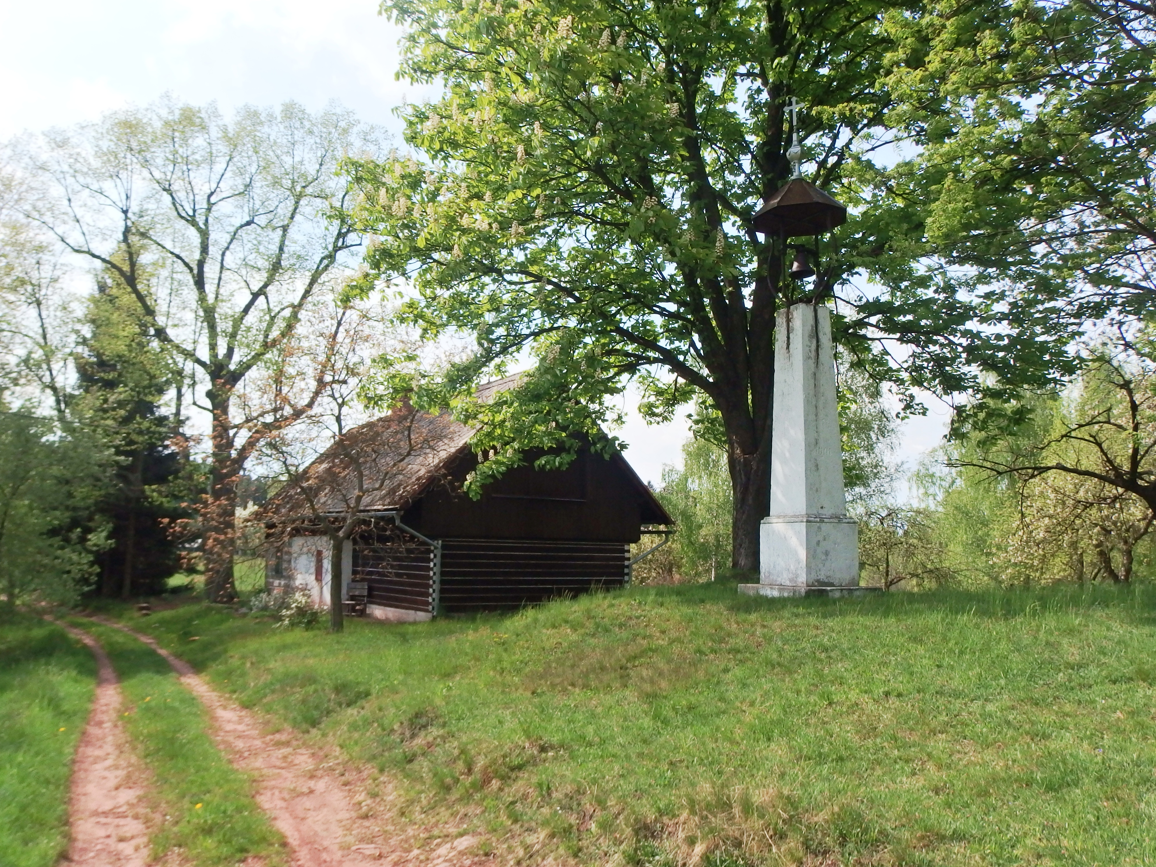 Vysoká Srbská, Náchod District, Czech Republic, part Závrchy.